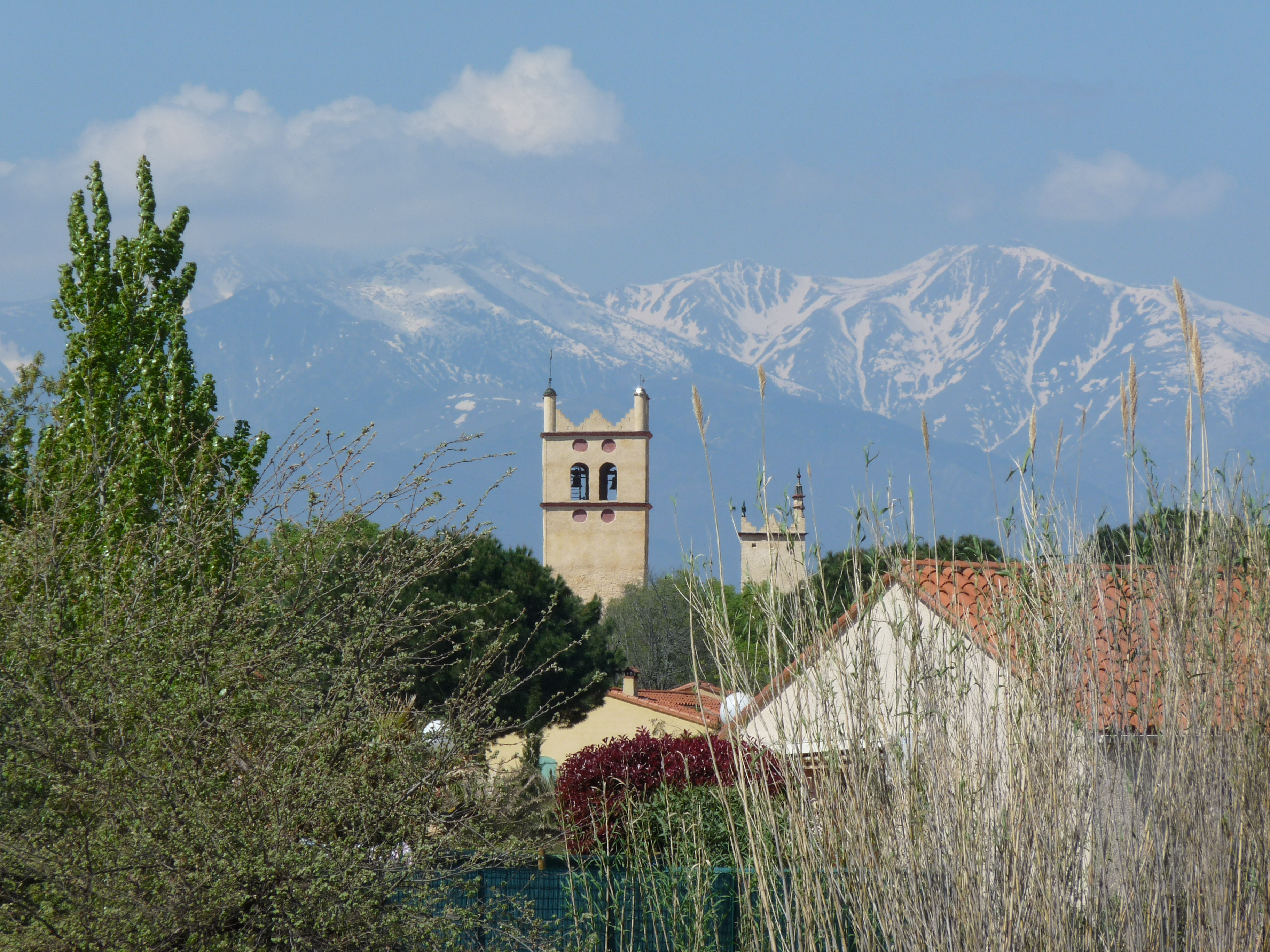 View of the bell-towers of the old abbaye of Saint-Génis-des-Fontaines (Pyrénées-Orientales) with the Canigou in the background.